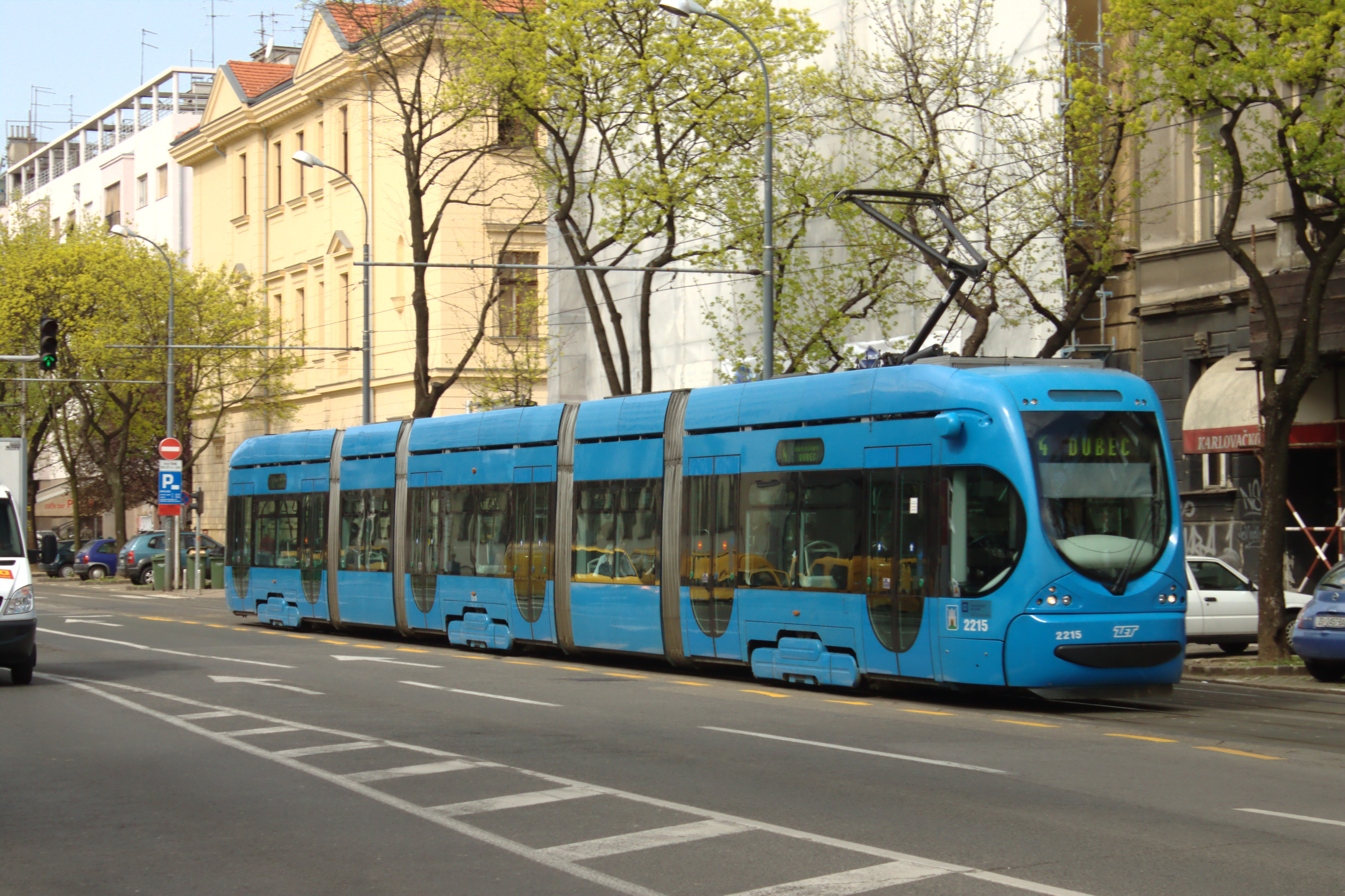 Končar-made tram in Zagreb at Knez Branimir Street, Croatia